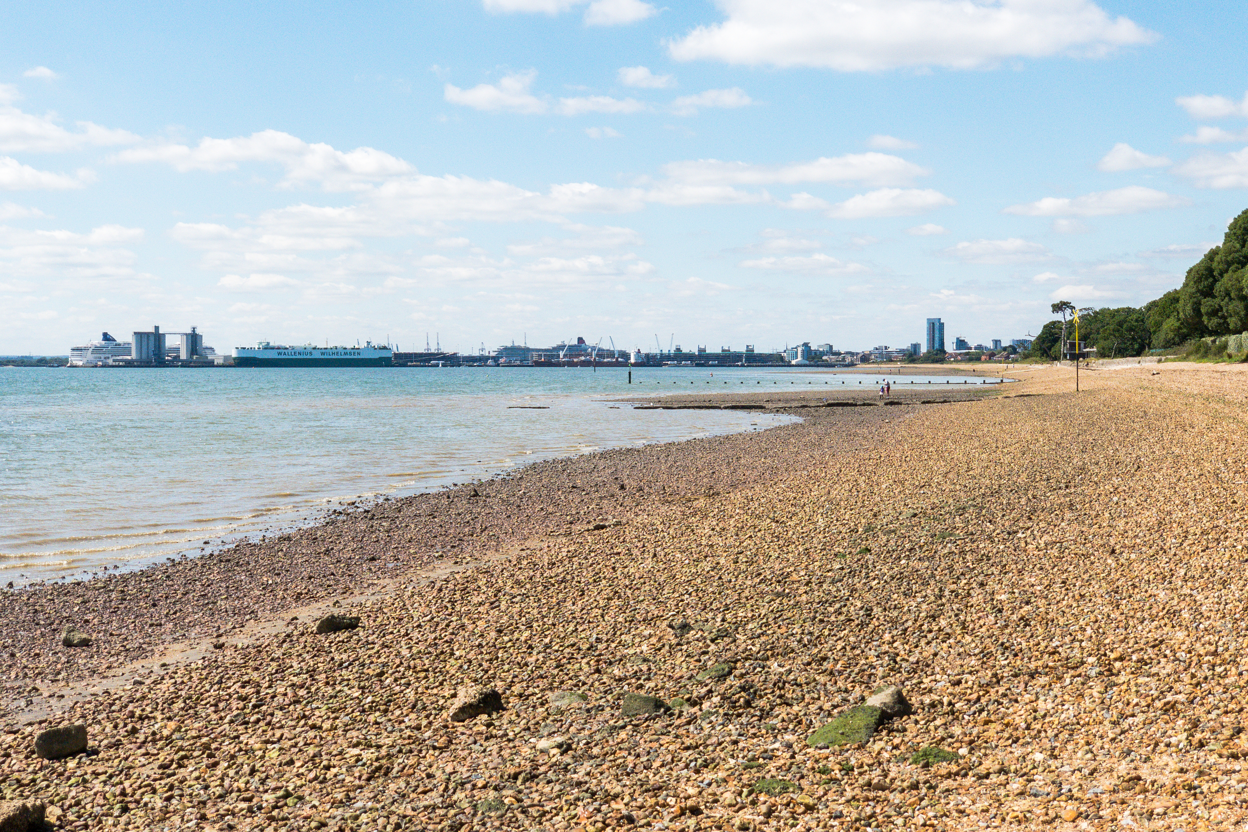 Image of Weston’s shore